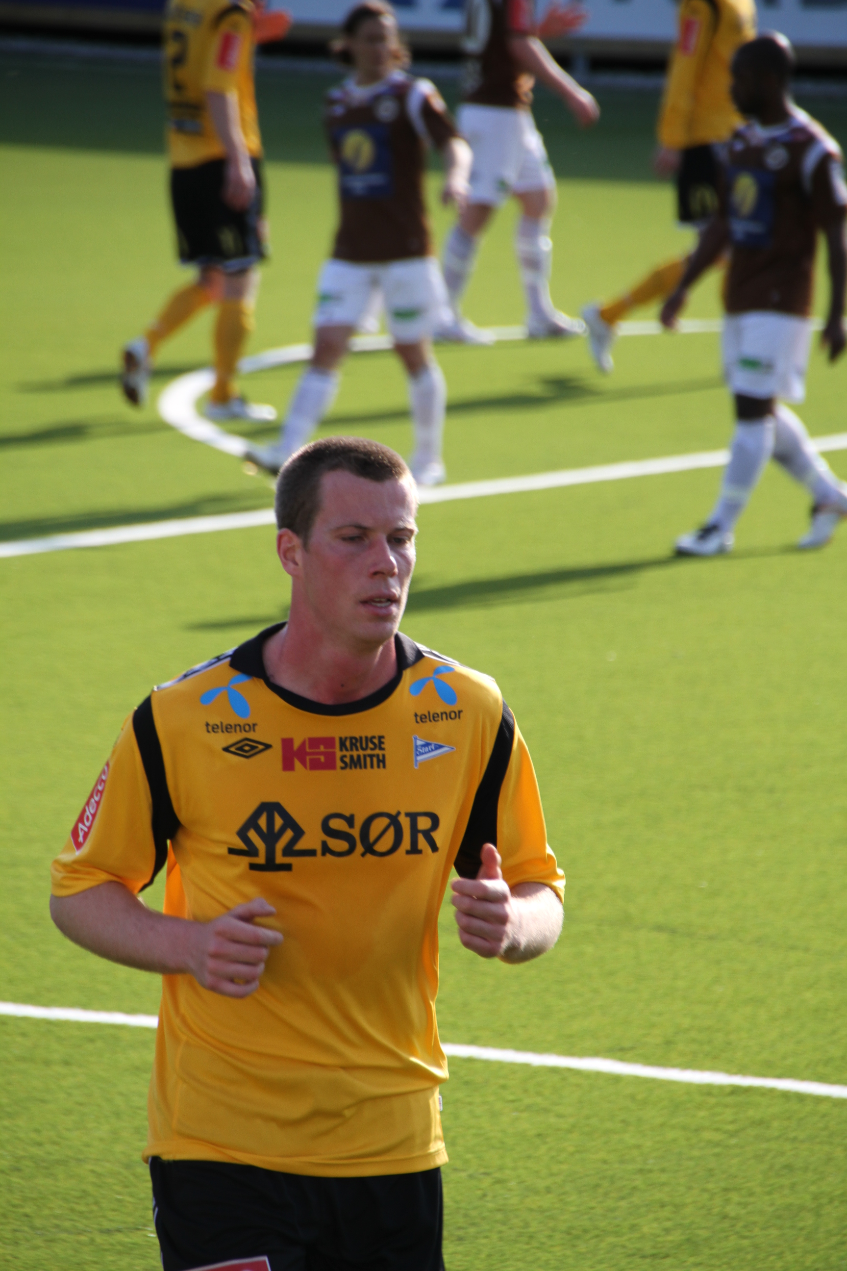 IK Start (Norway) player in match against Mjøndalen. May 20, 2012.